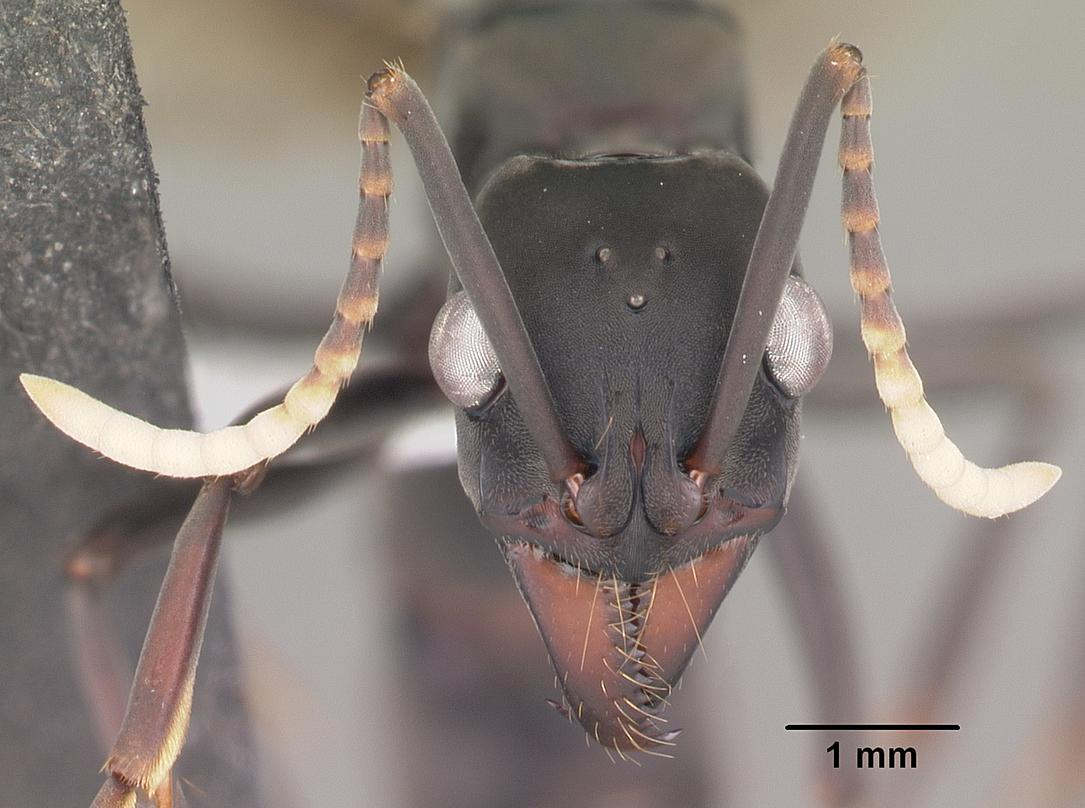 Head view of ant Pachycondyla apicalis specimen casent0103060.